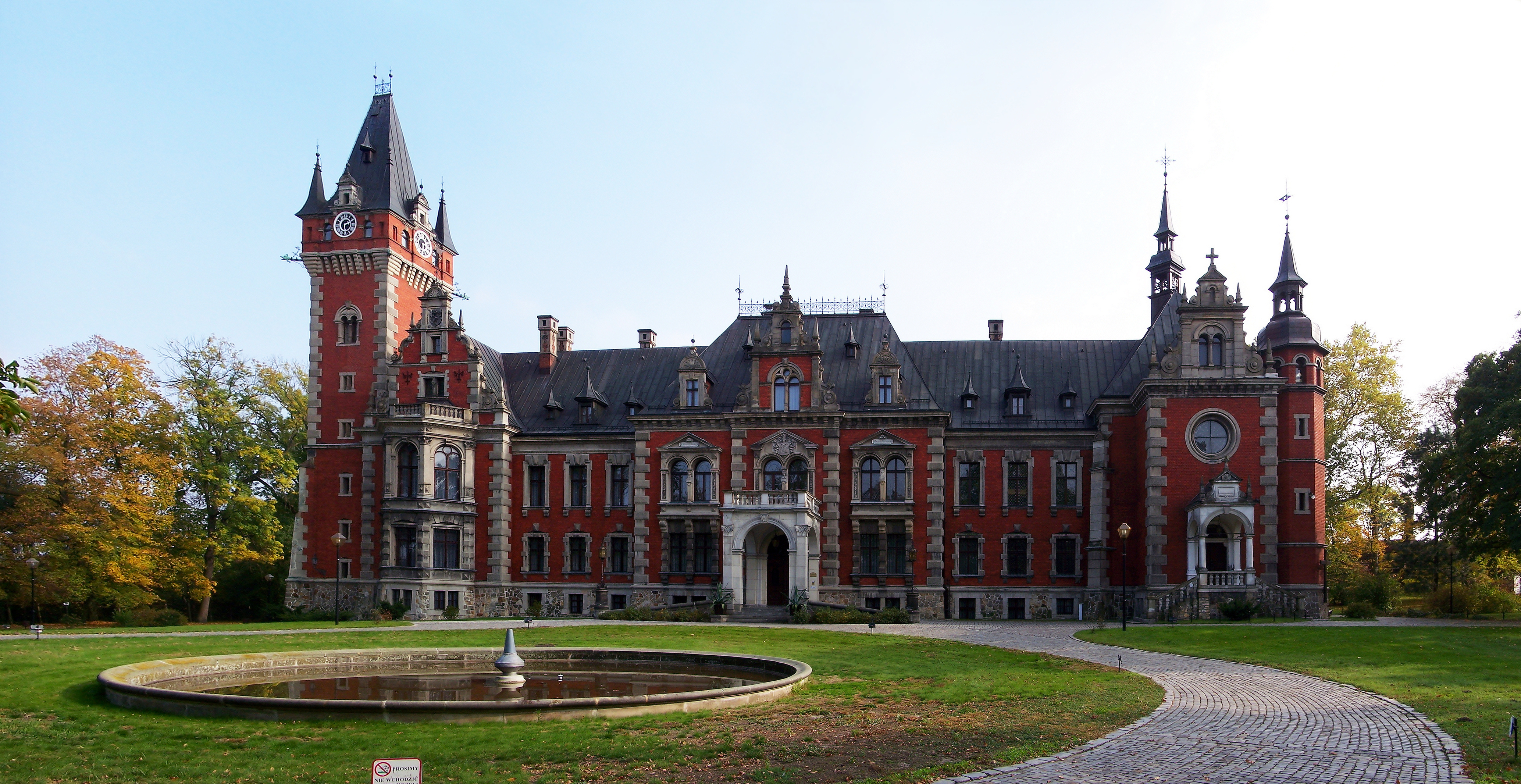 Palace in Pławniowice (Poland).